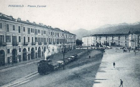 Pinerolo, piazza Cavour